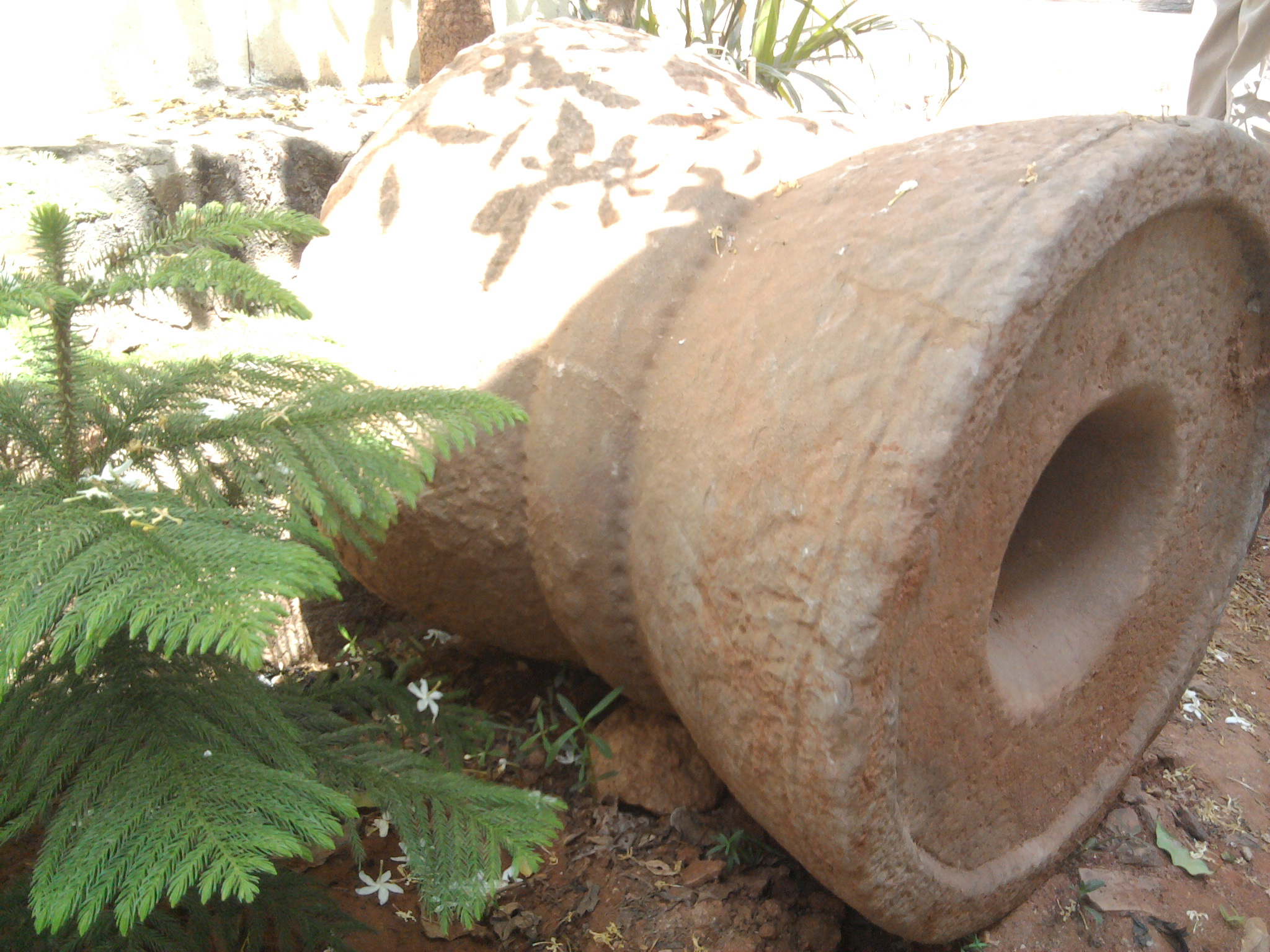 Rolu - Mortar made with heavy white stone at Vinjamoor, Nellore (dt), A.P, India.